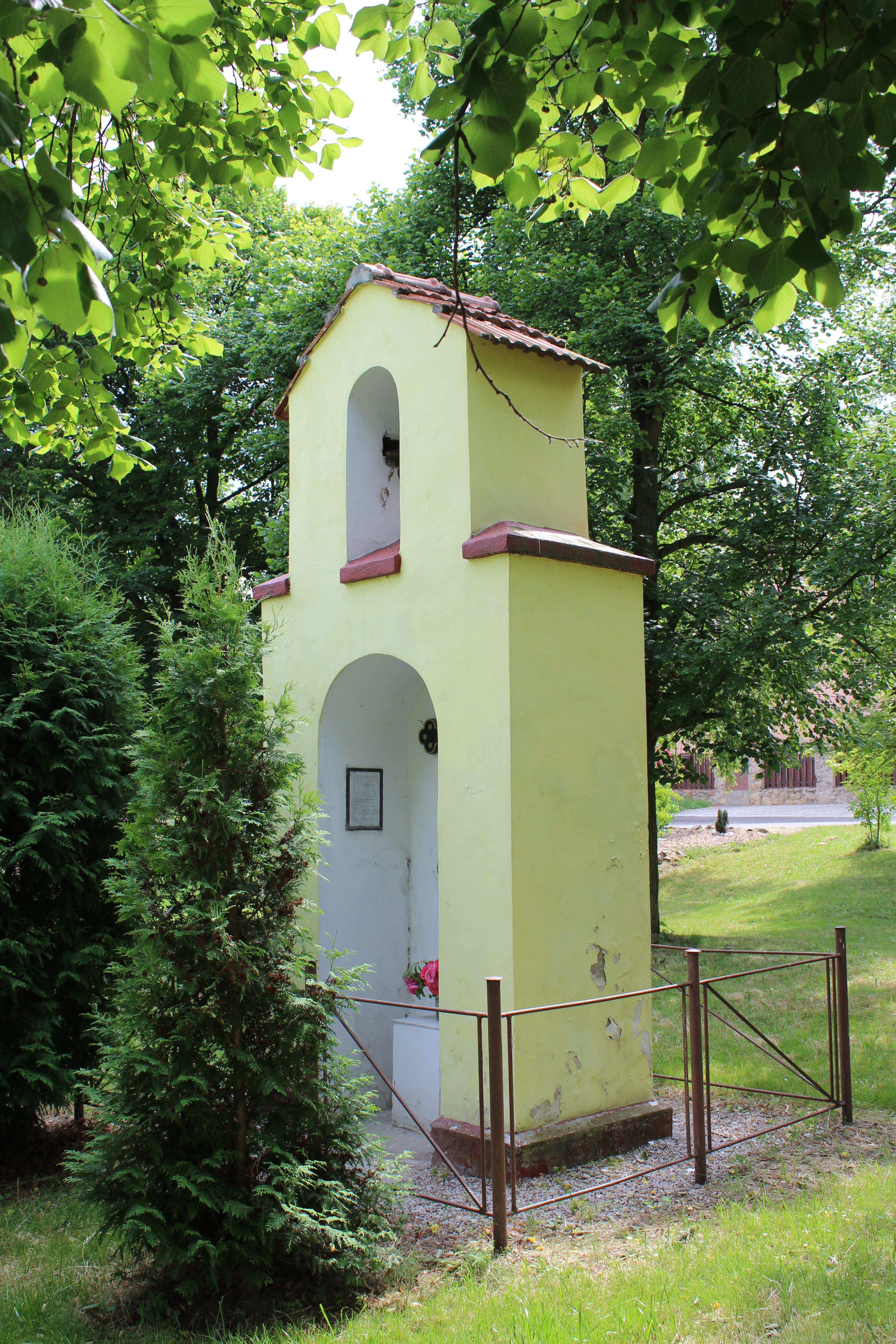 Chapel in Leč